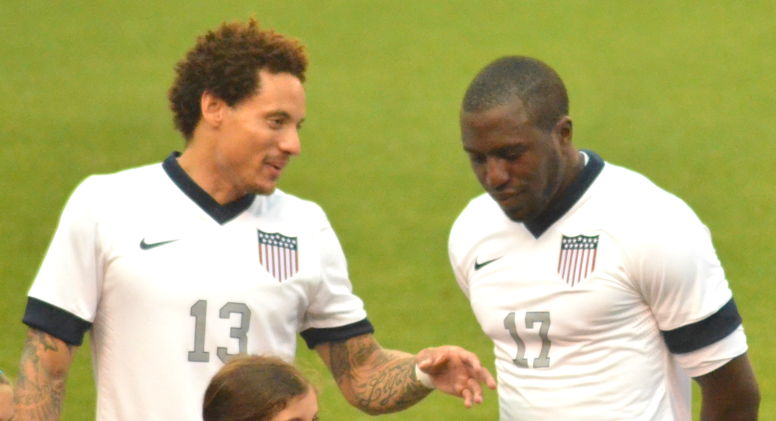 FirstEnergy Stadium Home of the Cleveland Browns